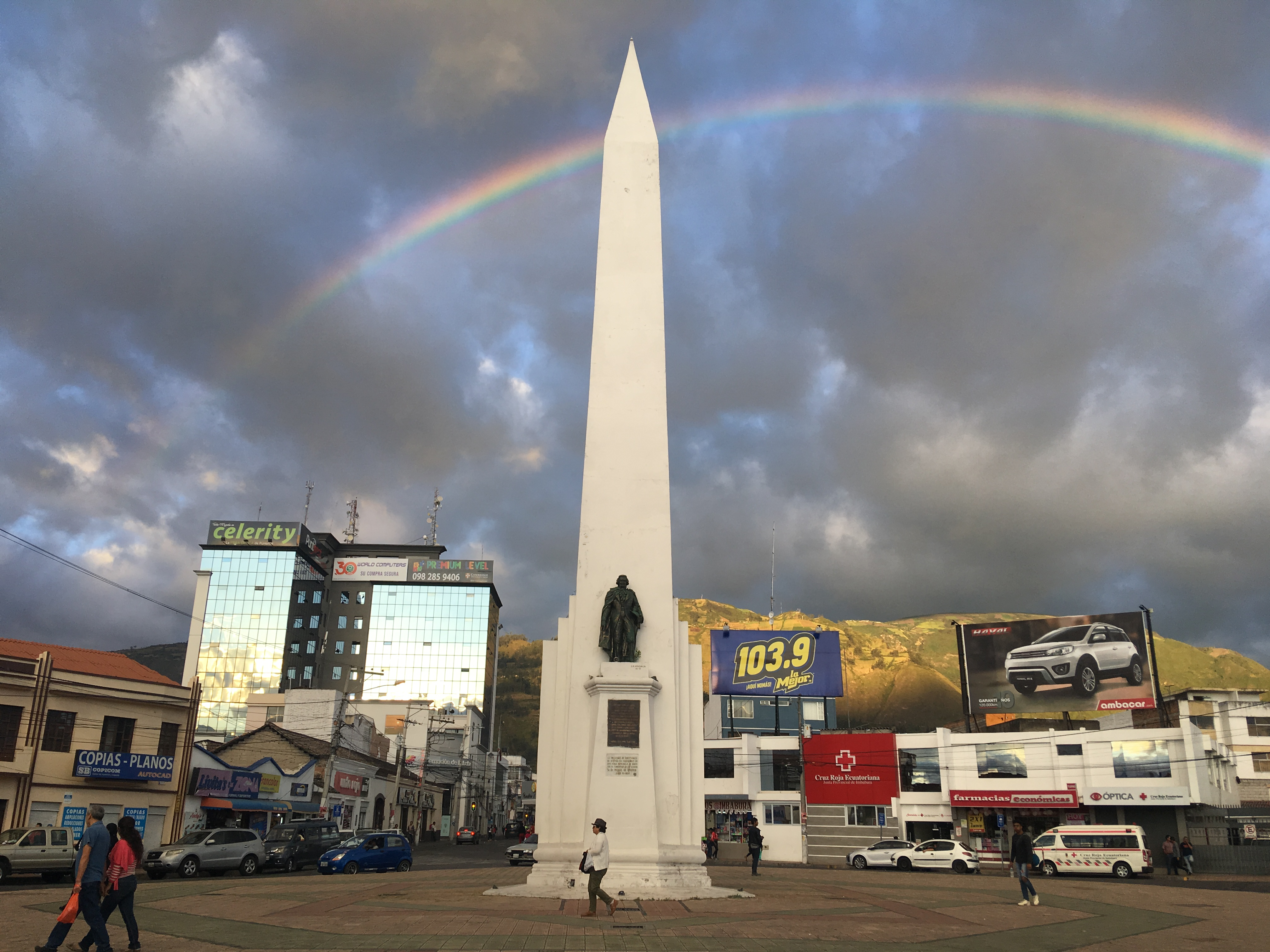 Landscape picture of the Ibarra's downtown obelisk with a rainbow in the background.